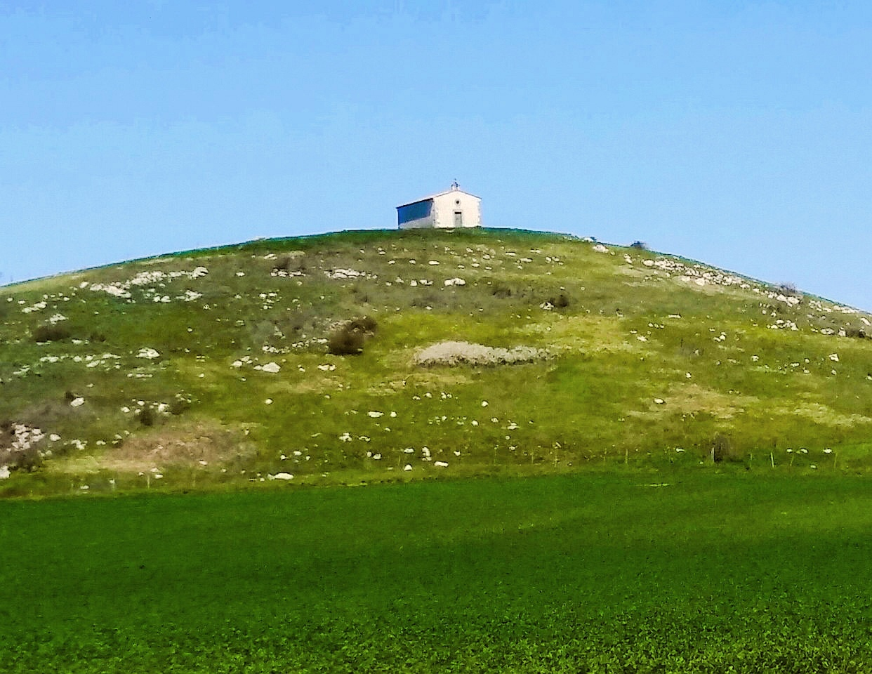 Saint Sophia Chapel upon a hill overlooking Ferrara highlands near Savignano Irpino, Italy